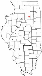 Category:Illinois city locator maps